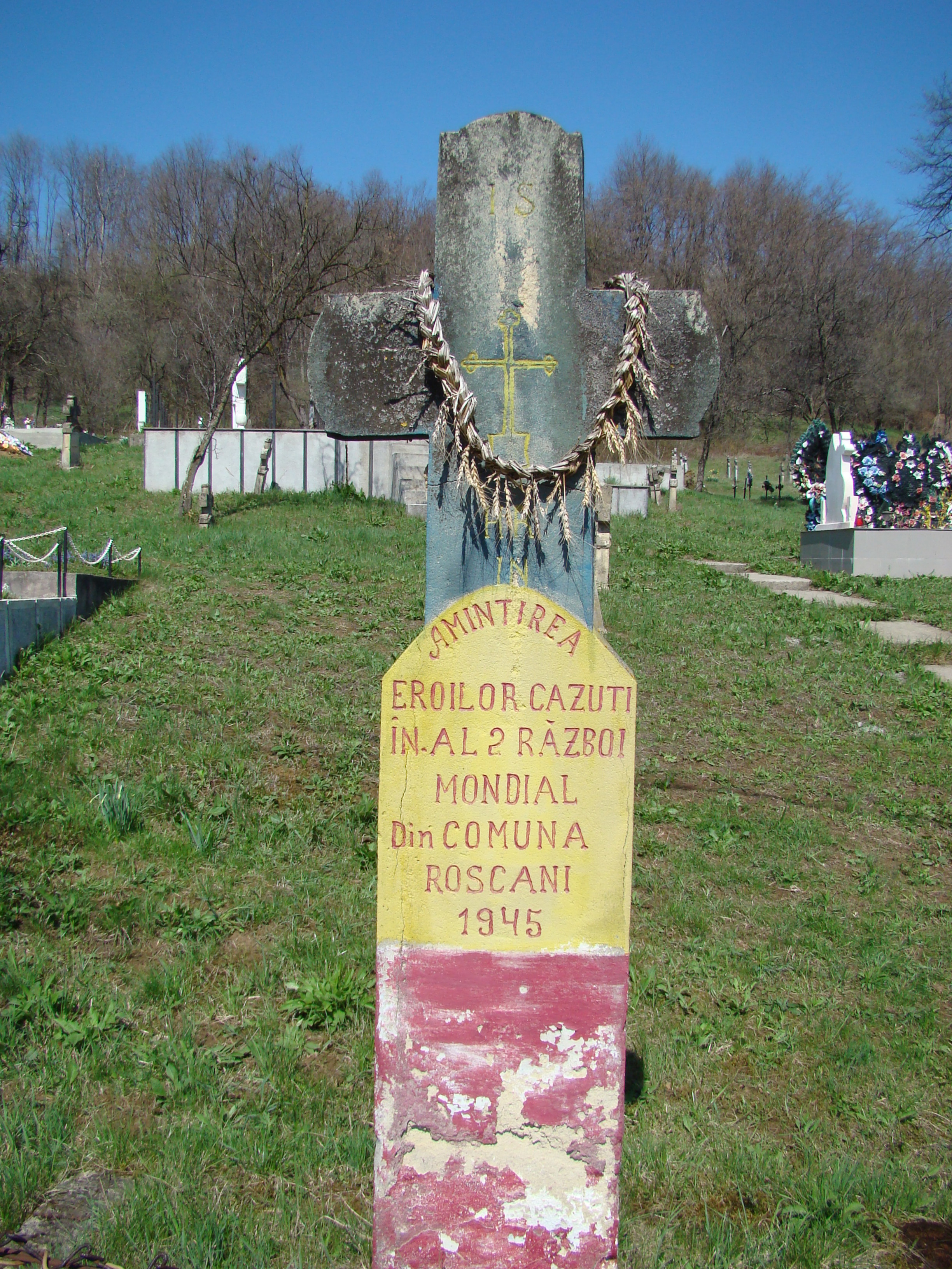 Roșcani, Hunedoara county, Romania